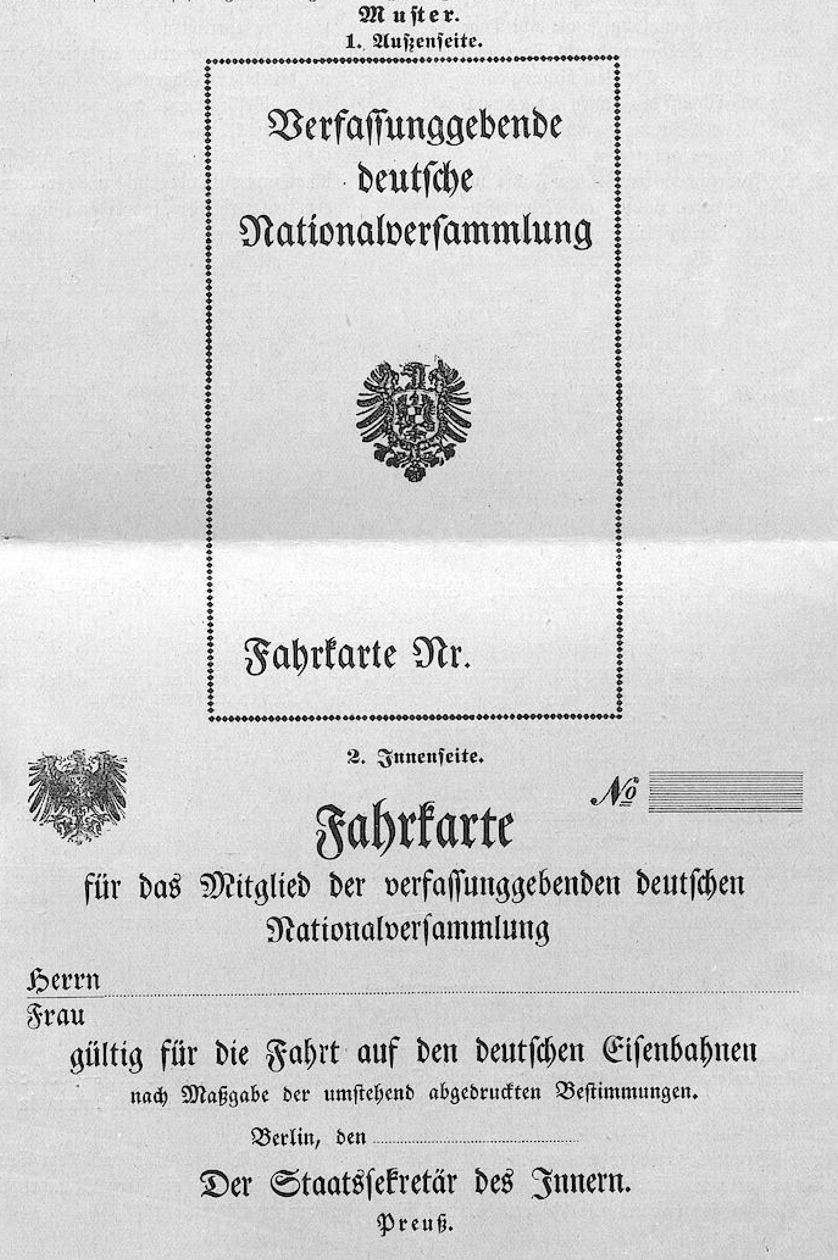 Specimen: Ticket for free travel on the railways for members of the German National Assembly 1919